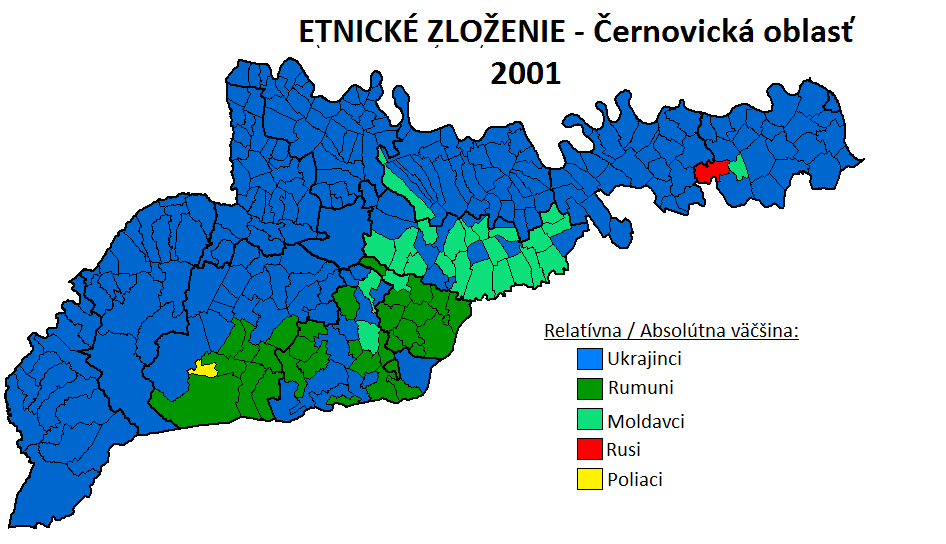 Ethnic structure